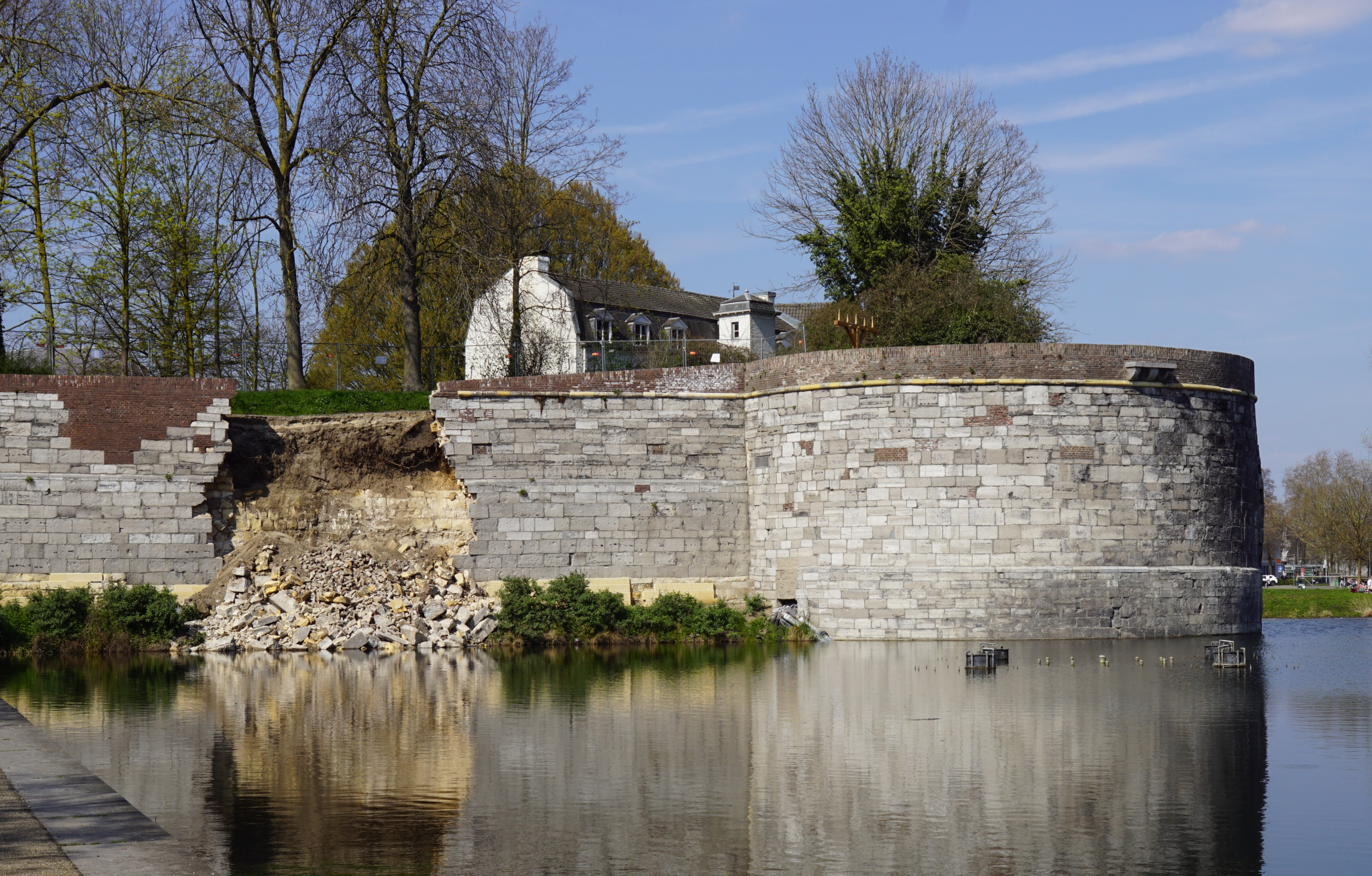 Roundel 'Vijf Koppen', Maastricht, The Netherlands. On March 24, 2019 a part of the city walls collapsed.